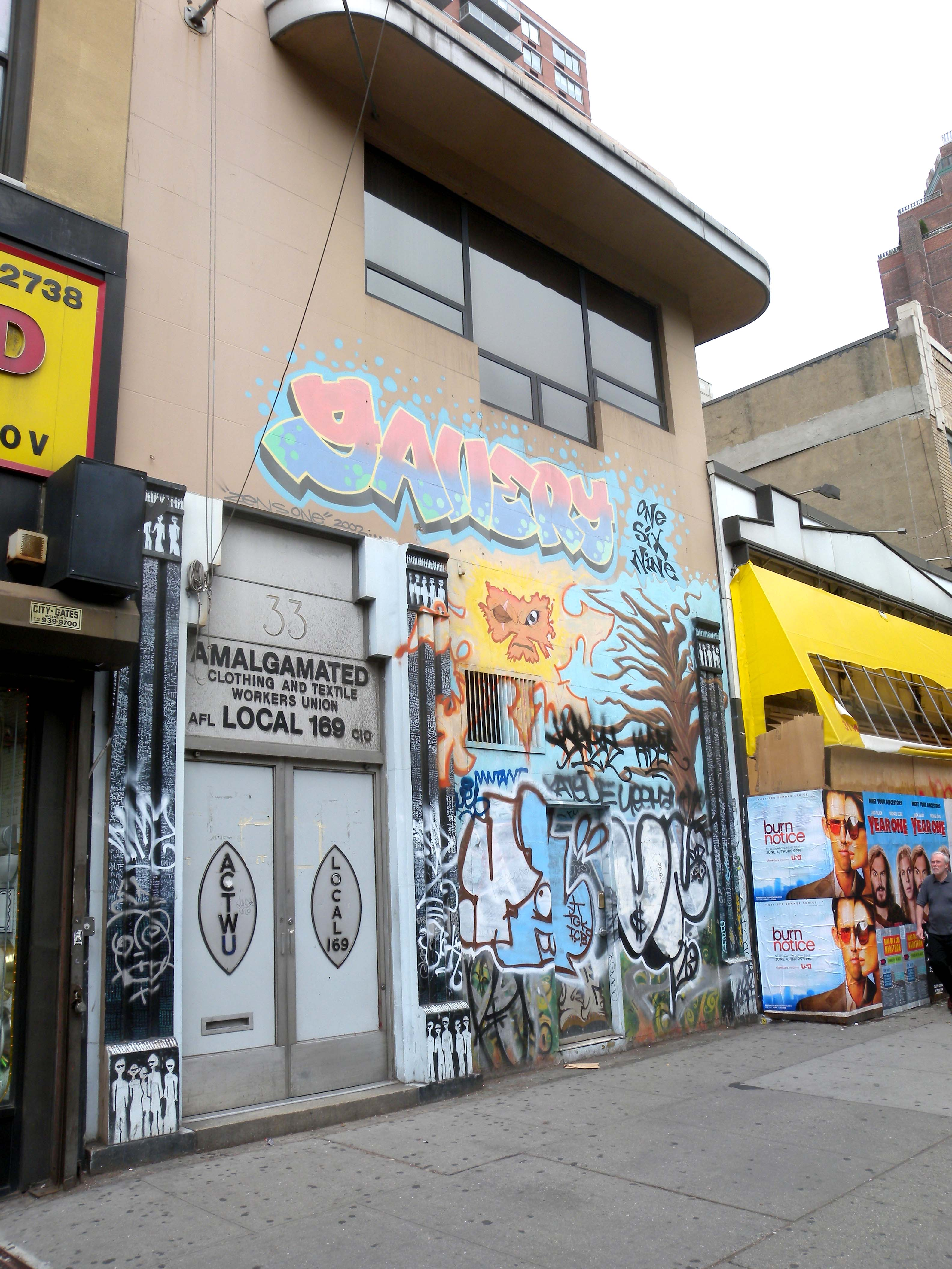 Looking east along 14th St sidewalk at Local 169 of Textile Workers Union of America on a cloudy afternoon. ZIP 10011.